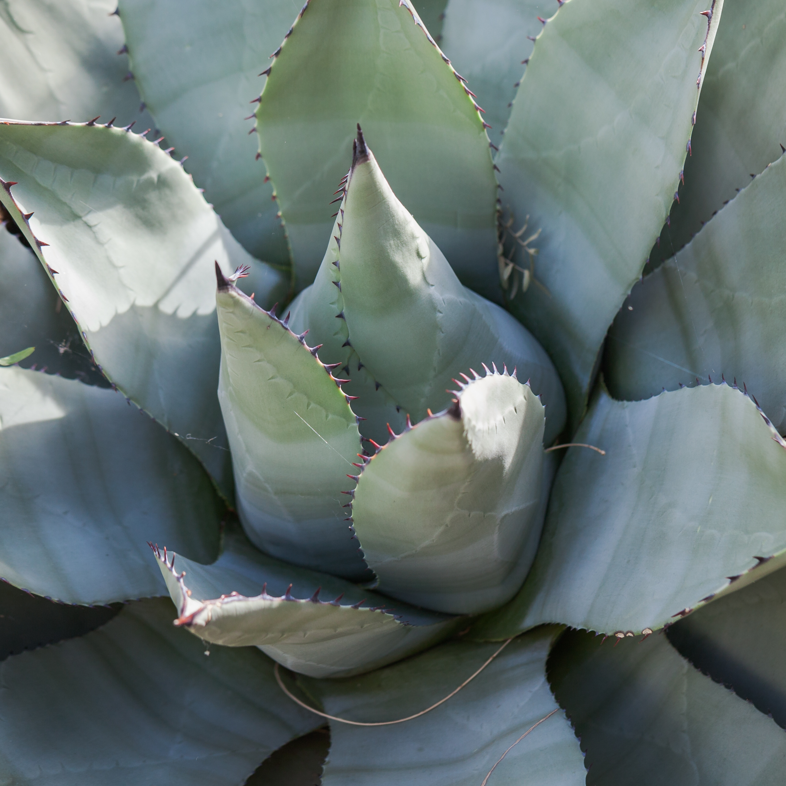 Parry's agave (Agave parryi), Botanic Conservatory, Fort Wayne, USA